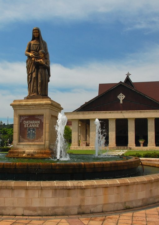 Description: Church of St Anne, Bukit Mertajam Source: self-made Author : Jimmy Tan